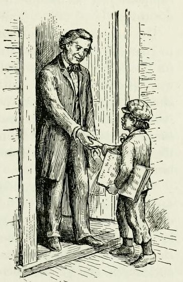 Illustration of the young Ezra Meeker delivering a newspaper to Henry Ward Beecher